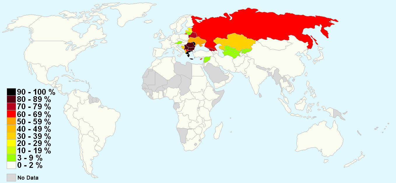 Orthodoxy around the world.